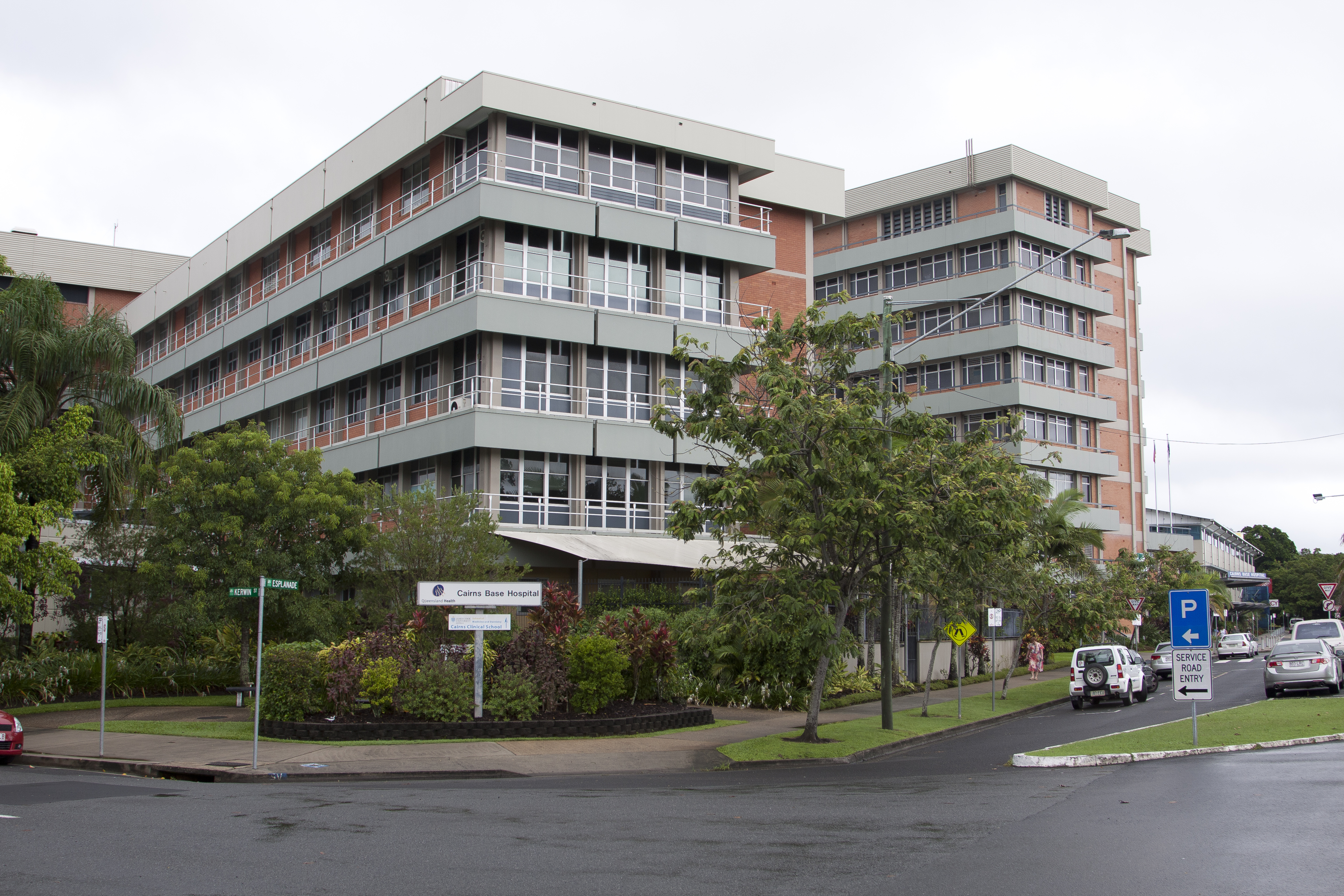 View of the Cairns Base Hospital, located on the Esplanade in Cairns, Queensland, Australia